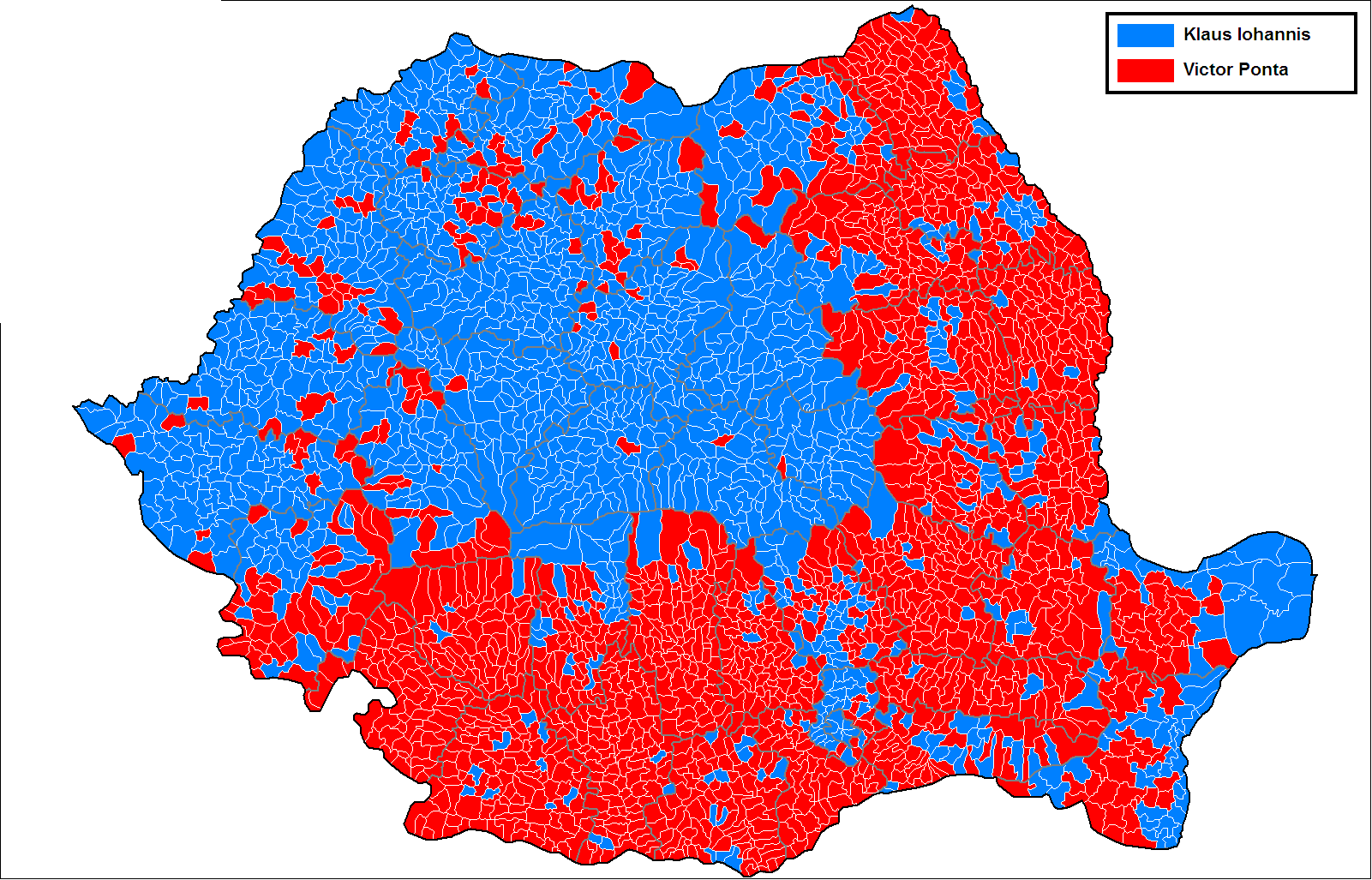 Results of the Romanian presidential election runoff by locality